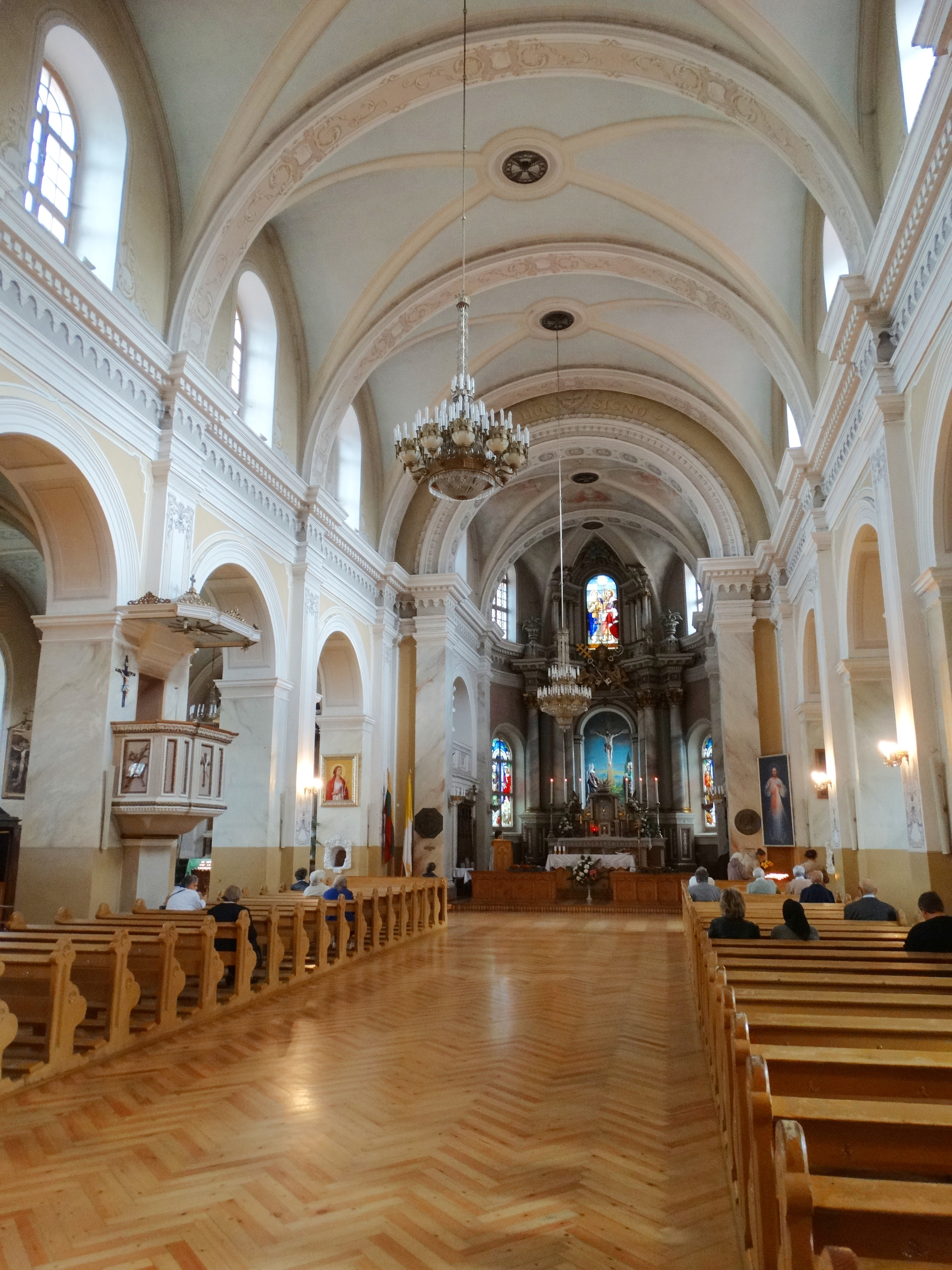 Peter and Paul church, interior, Panevėžys, Lithuania